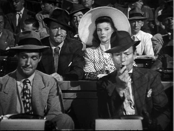 Screenshot of Spencer Tracy and Katharine Hepburn from the trailer for the 1942 film Woman of the Year